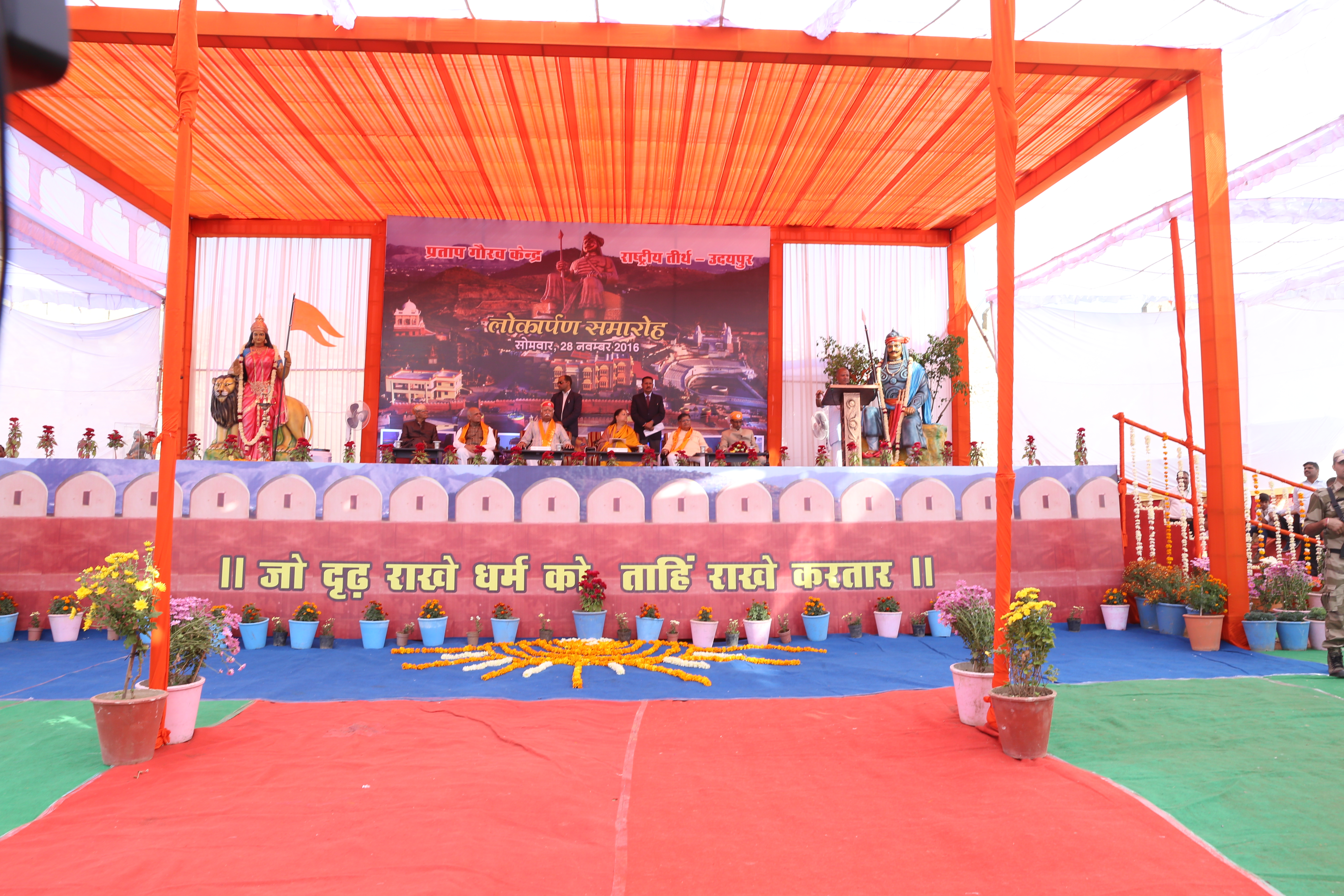 Pratap Gaurav Kendra Rashtriya Tirth